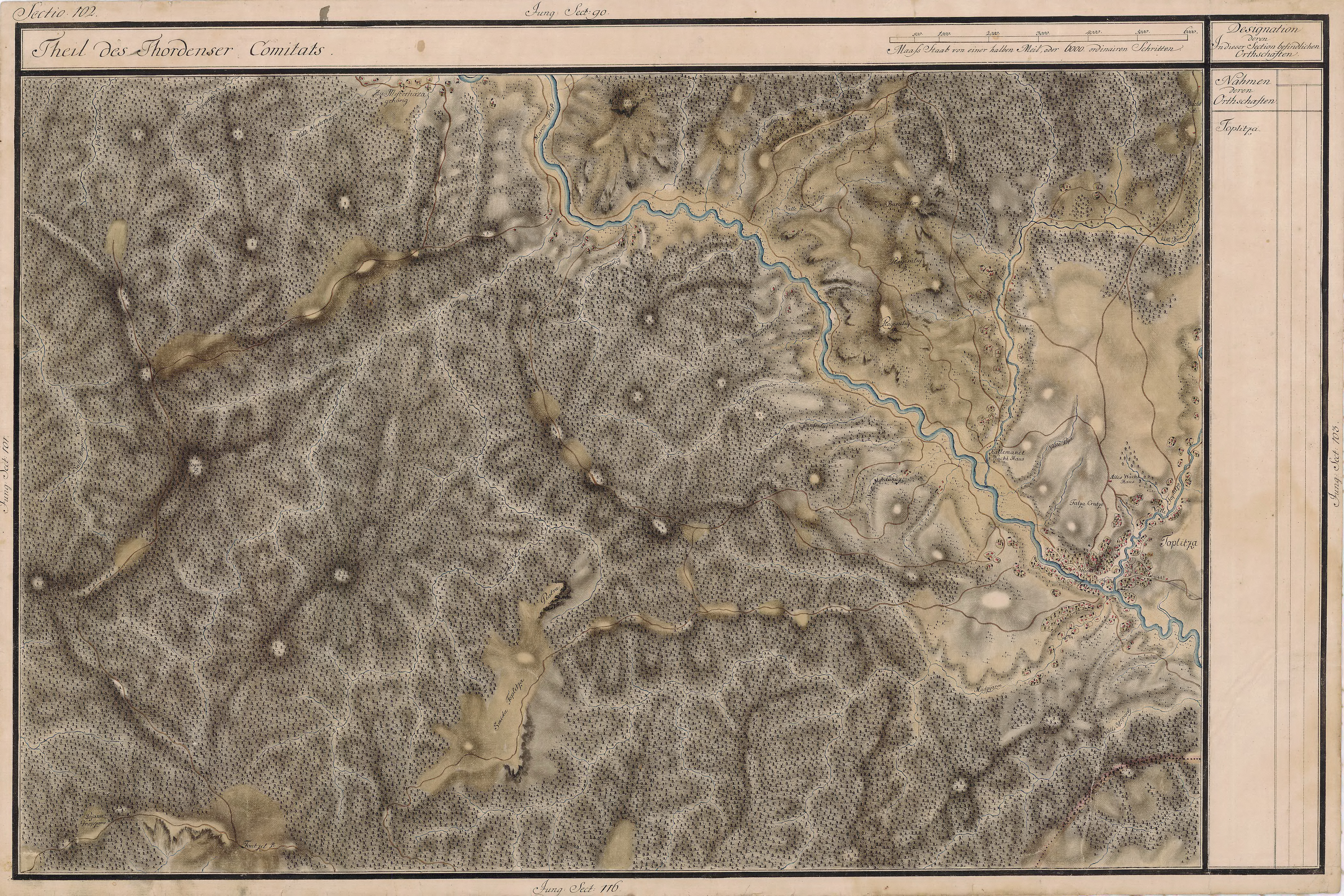 Grand Duchy of Transylvania, 1769-1773. Josephinische Landaufnahme pg.102